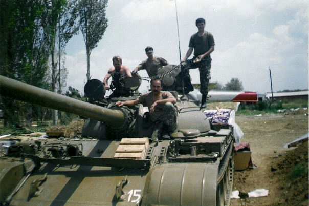 FYROMs Army reservists tank crew at the battle for Aracinovo.